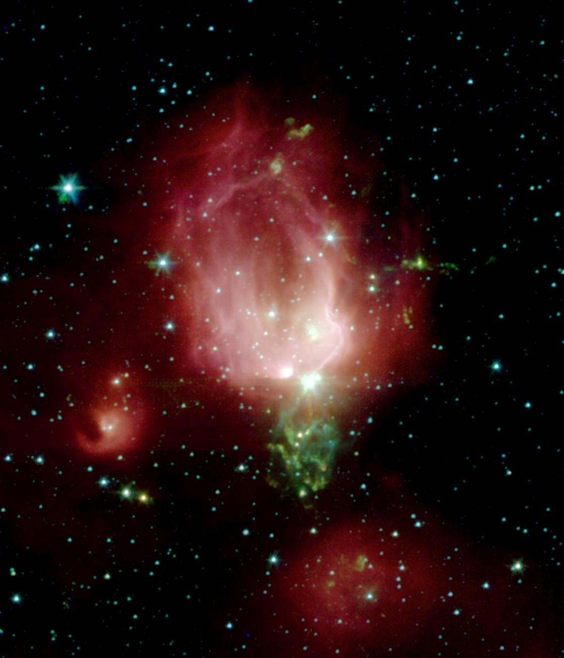 This image is from NASA's Spitzer Space Telescope and was their 2004 Valentine's Day release (the "cosmic rose"). More information is available at